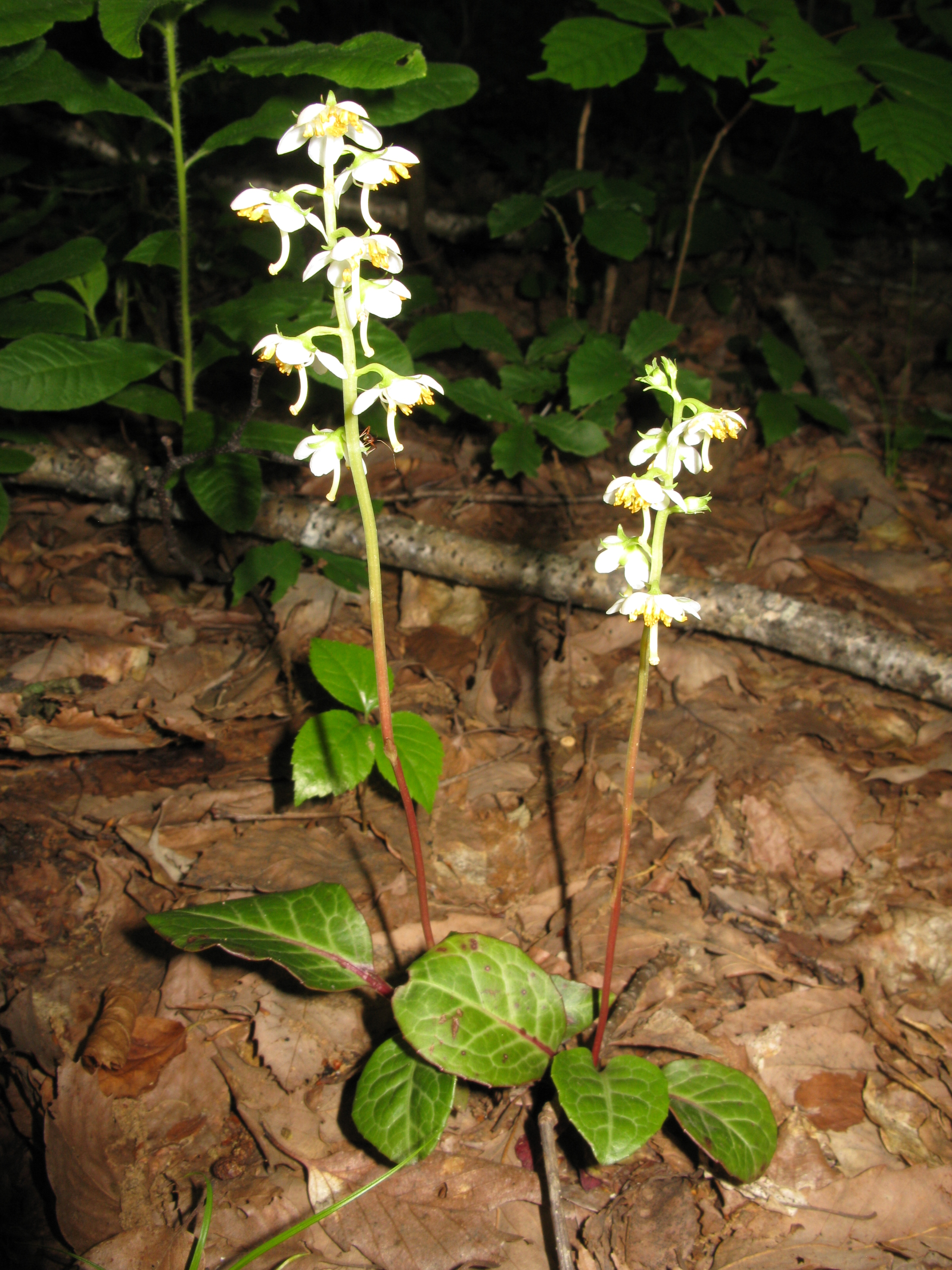 Pyrola japonica, Aizu area, Fukushima pref., Japan